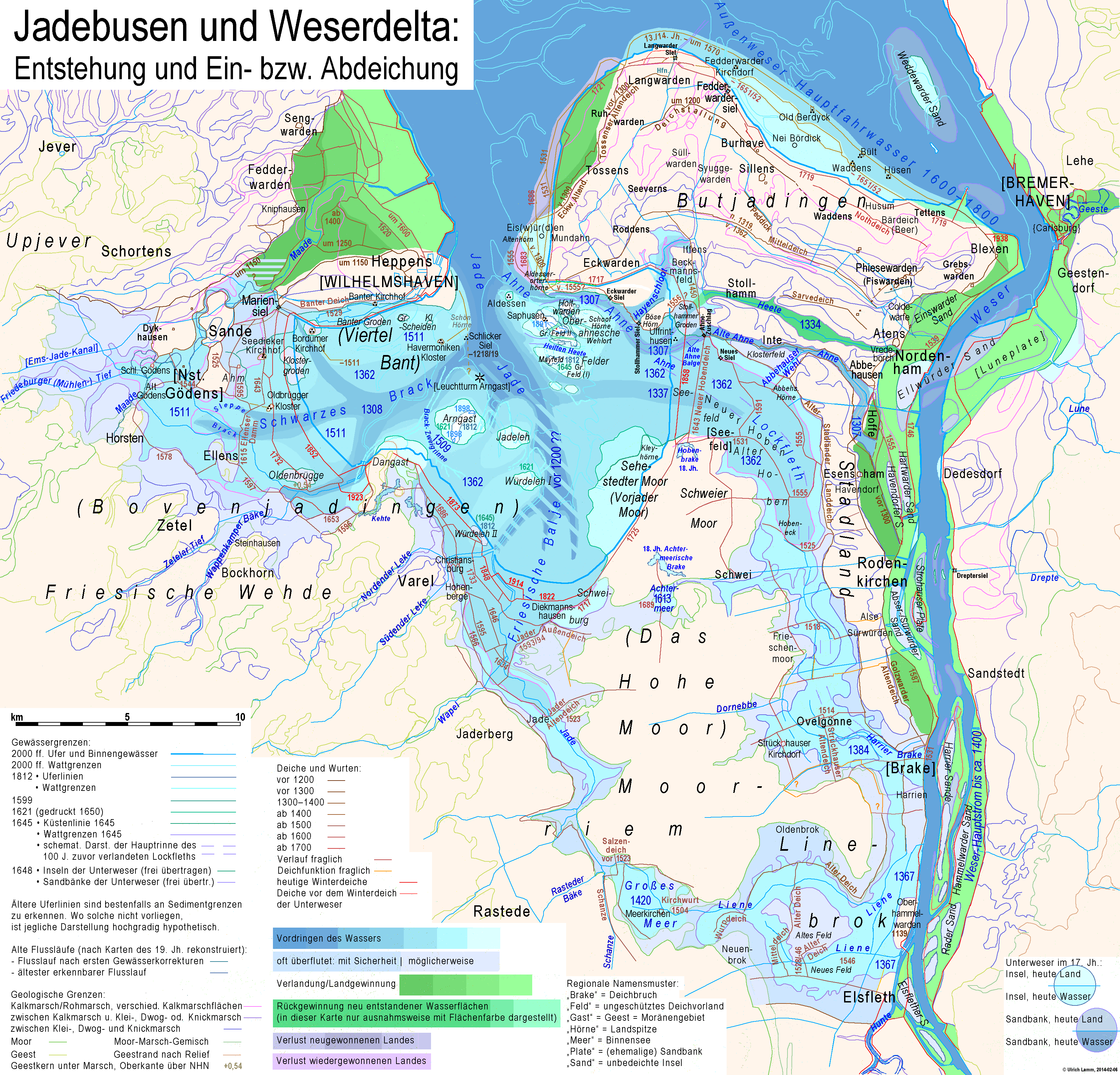 Development of the Jadebusen (Jade Bight) and the interim delta of Weser river• blue areas = advancement of waterbodies• green areas = growth of land• grayish pale blue areas = sometimes flooded• grayish lilac areas = newly gained land lost again• grayish pink areas = regained land lost again• brown to red lines = dikes• bold intensive light blue line = today's coastline• light blue lines = today's forshore limit• bold pale blue lines = forshore limit c. 1810• dirty lilac lines = foreshore limit c. 1645• light pink to light lilac, ocre and light green lines = geological soil borders.Areal colours are uesd almost only for new won land. Regaining of losses mostly is marked only by the dikes.